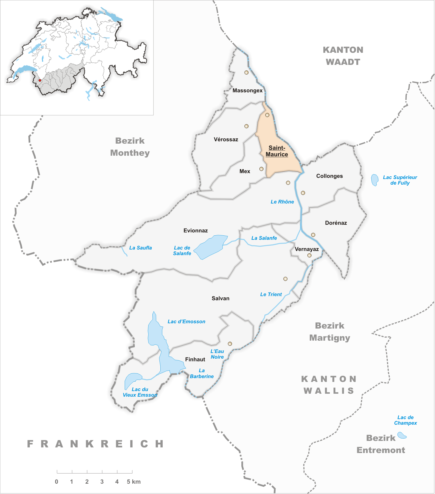 Municipality Saint-Maurice